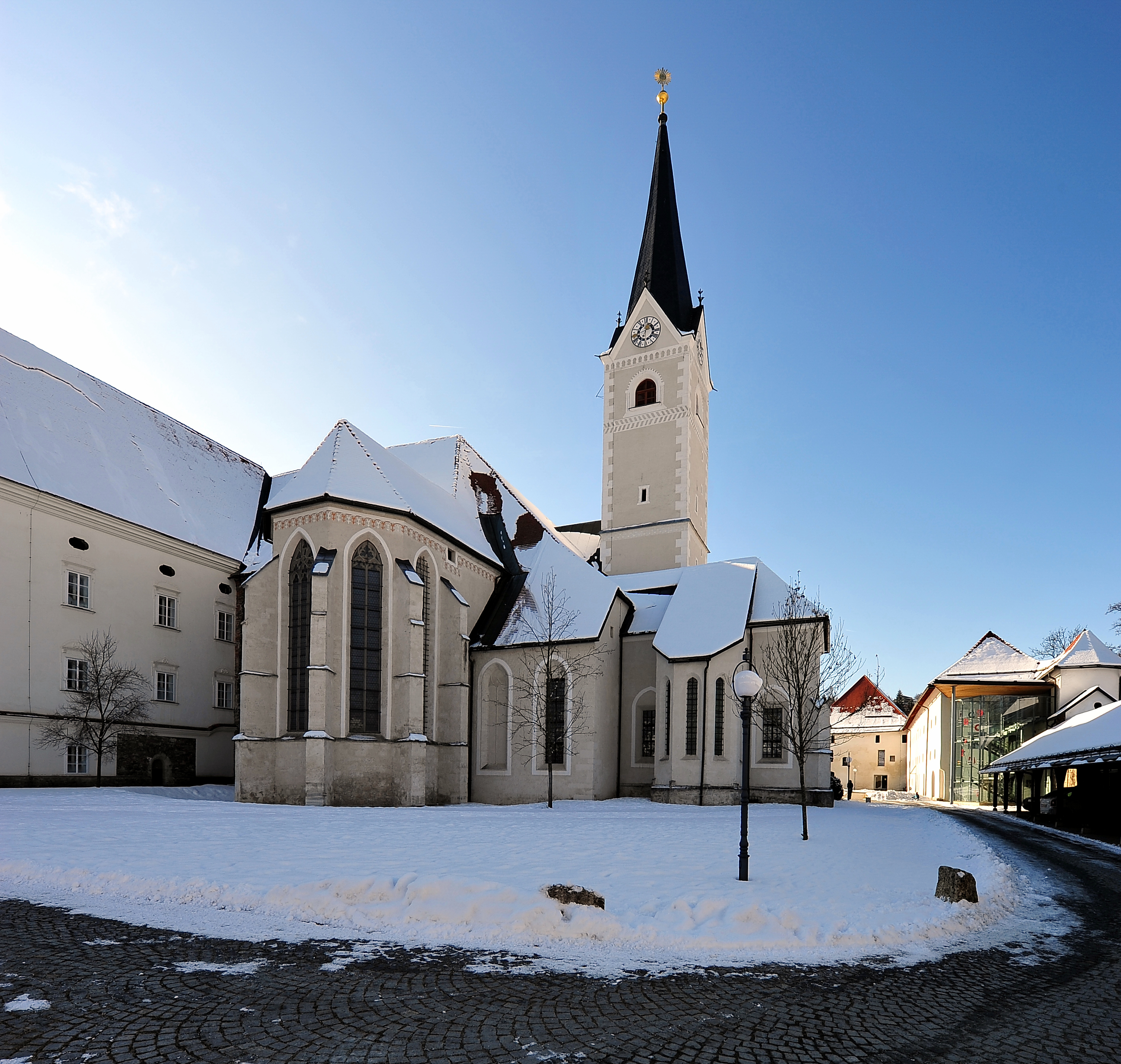 Abbey church in the cistercian monastery Viktring in the 13th district "Viktring" of the Carinthian capital Klagenfurt on the Lake Woerth, Carinthia, Austria